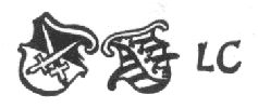 Lucas Cranach the Elder monogram